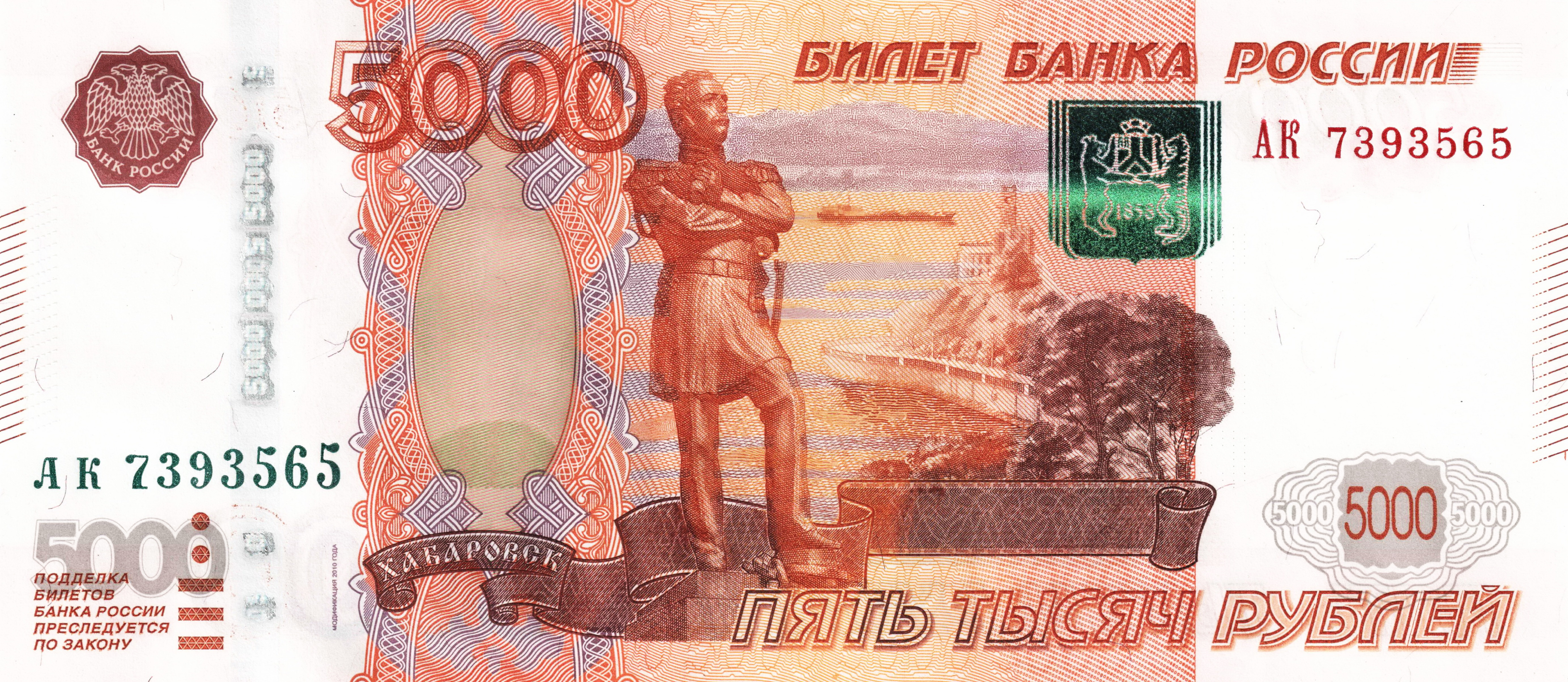 Russian banknote. 5000 rubles. Version of 2010 year. Front